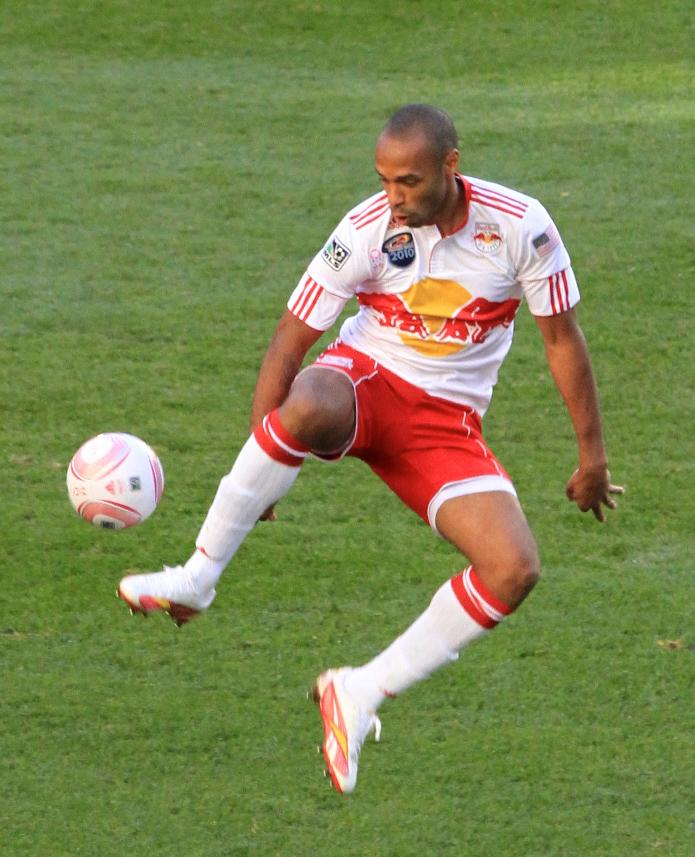 Red Bull New York's own TH14 Thierry Henry, making a play on the ball midfield versus Real Salt Lake.